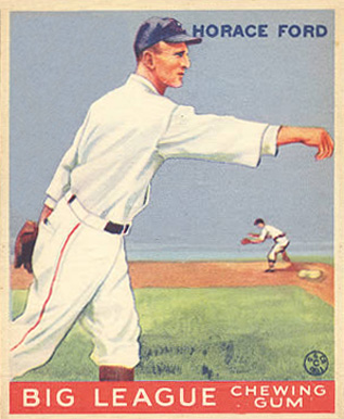 1933 Goudey baseball card of Horace "Hod" Ford of the Boston Braves #24. PD-not-renewed